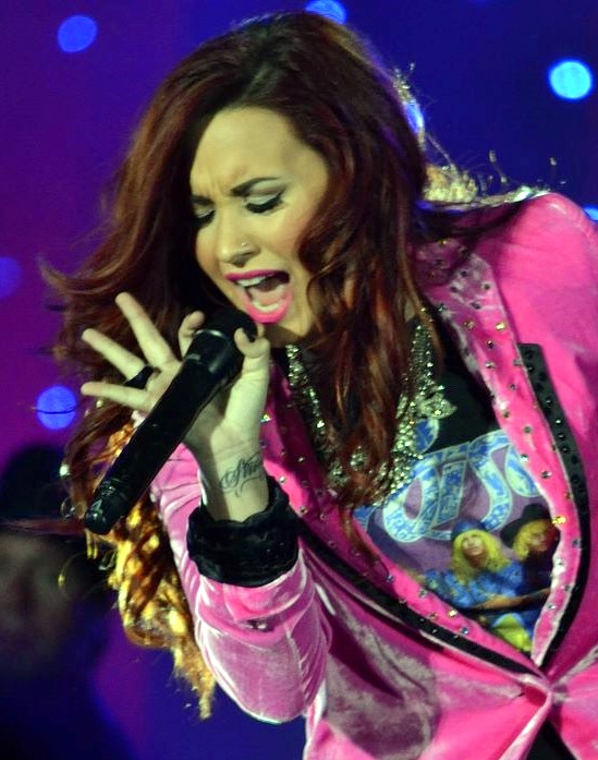 Demi Lovato at the FOX Upfronts After Party - Presentation May 2012